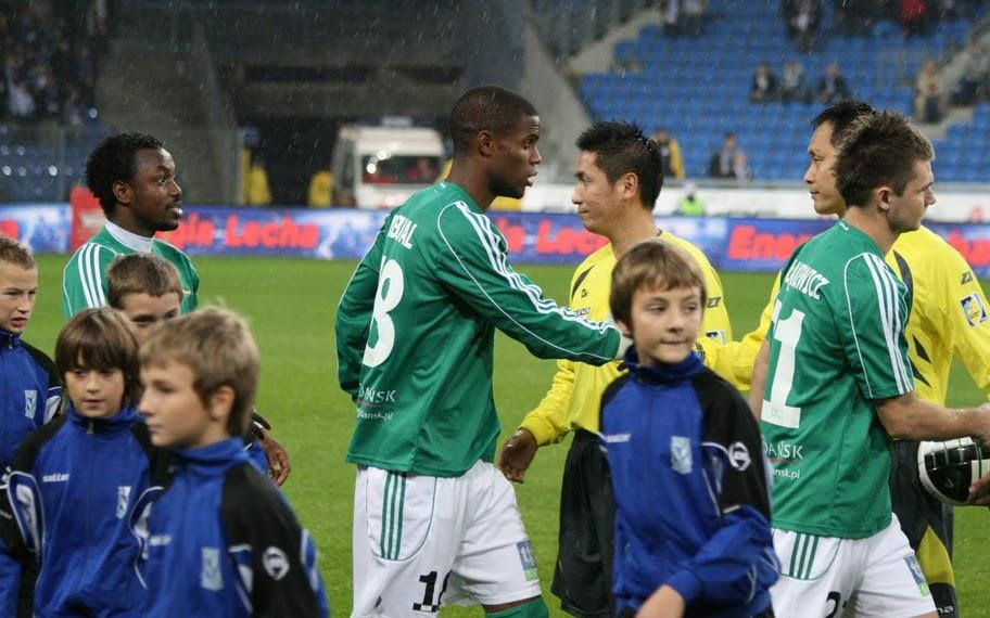 Teams presentation in Lech Poznań - Lechia Gdańsk.